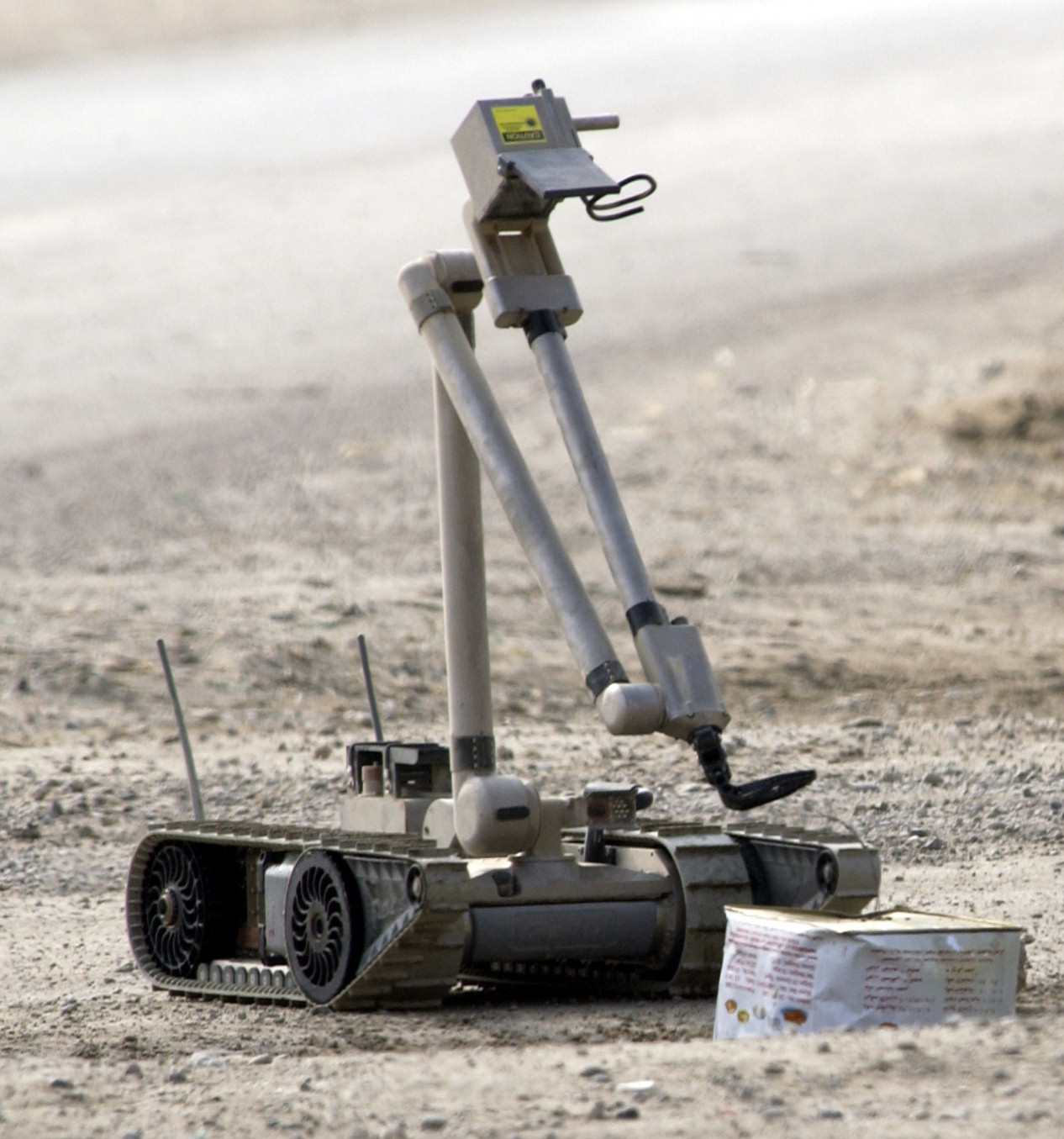 Samarra, Iraq (Nov. 3, 2004) - A U.S. Army explosive ordnance disposal (EOD) robot, “i-Robot”, pulls the wire of an alleged improvised explosive device (IED), found by the Iraqi Police. Controlled by a team of Soldiers assigned to 731st Ordnance Company, of Wright-Patterson Air Force Base, Ohio, “i-Robot” safely surveys the device at a safe distance with its two on-board cameras and mechanical arm. U.S. Navy photo by Journalist 1st Class Jeremy L. Wood (RELEASED)